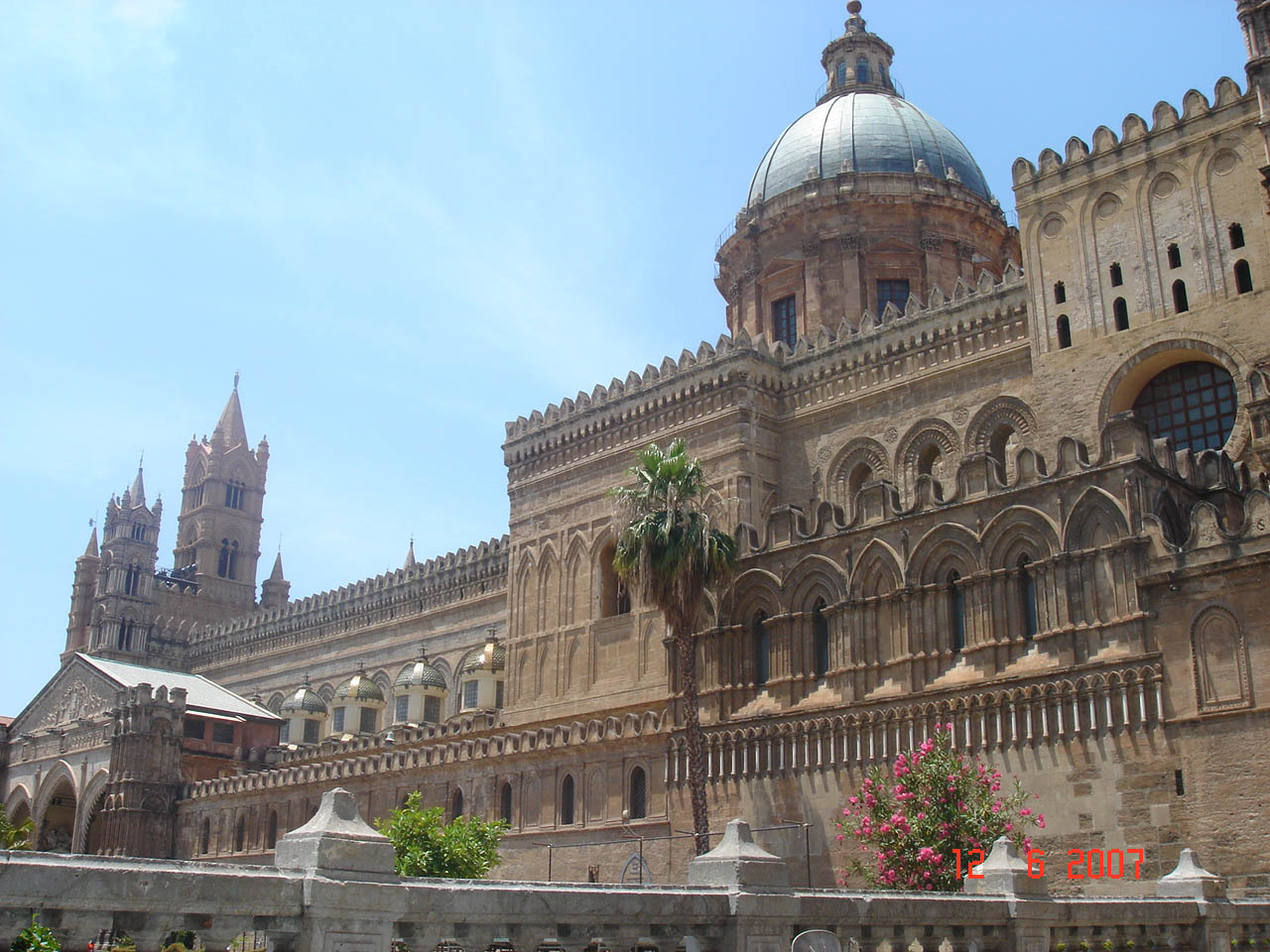 Southern facade of Palermo Cathedral